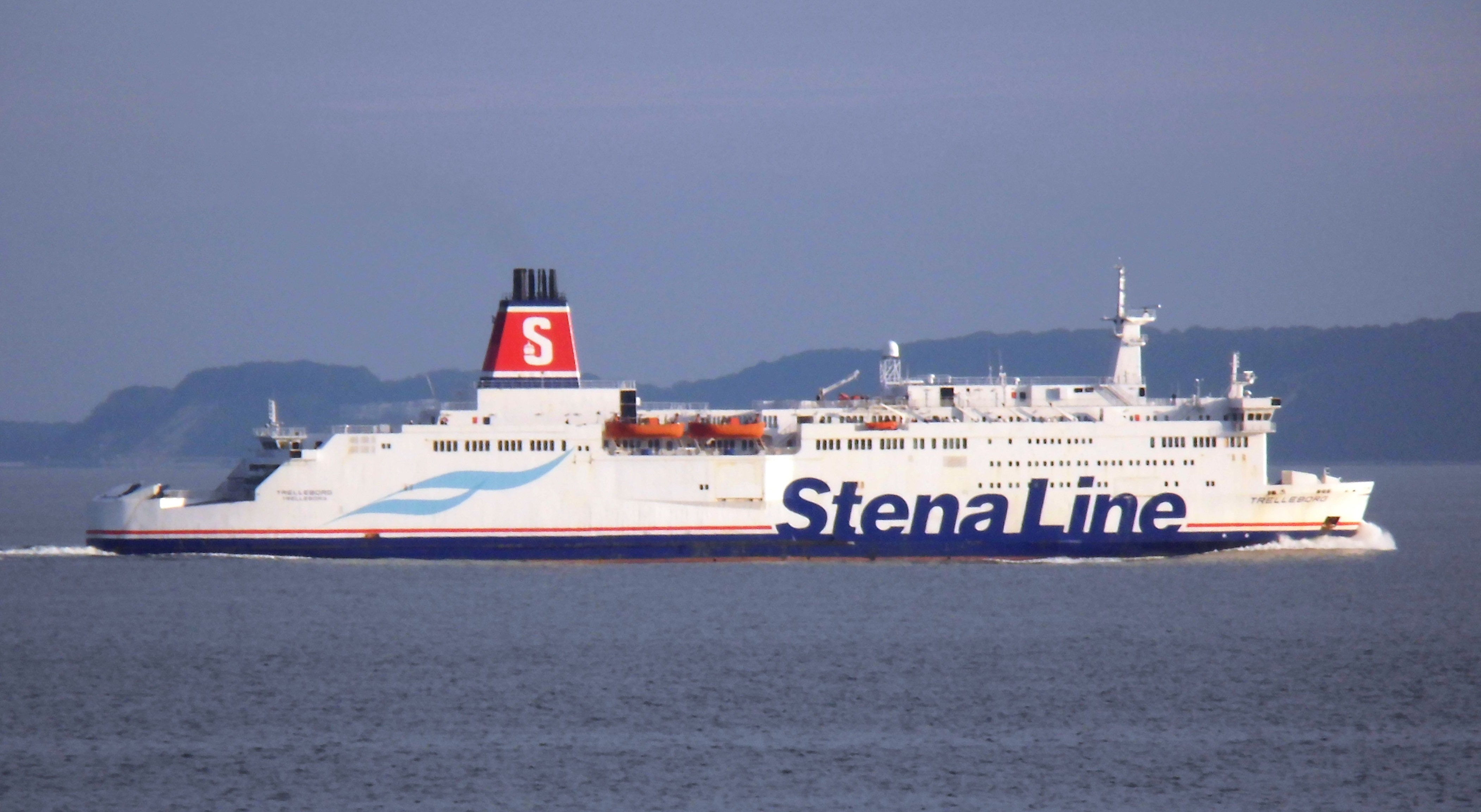 Fährschiff Trelleborg vor Sassnitz 2013